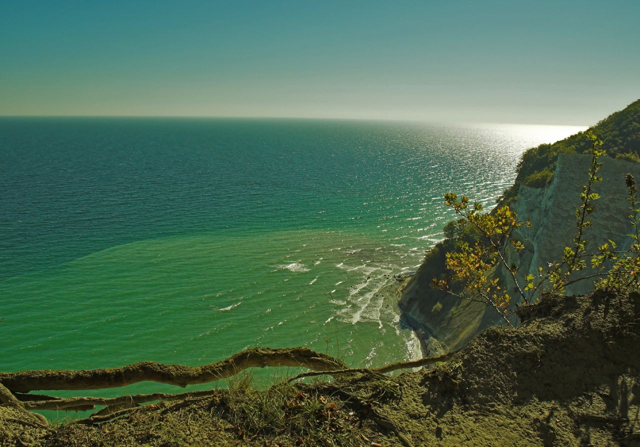 Møns Klint